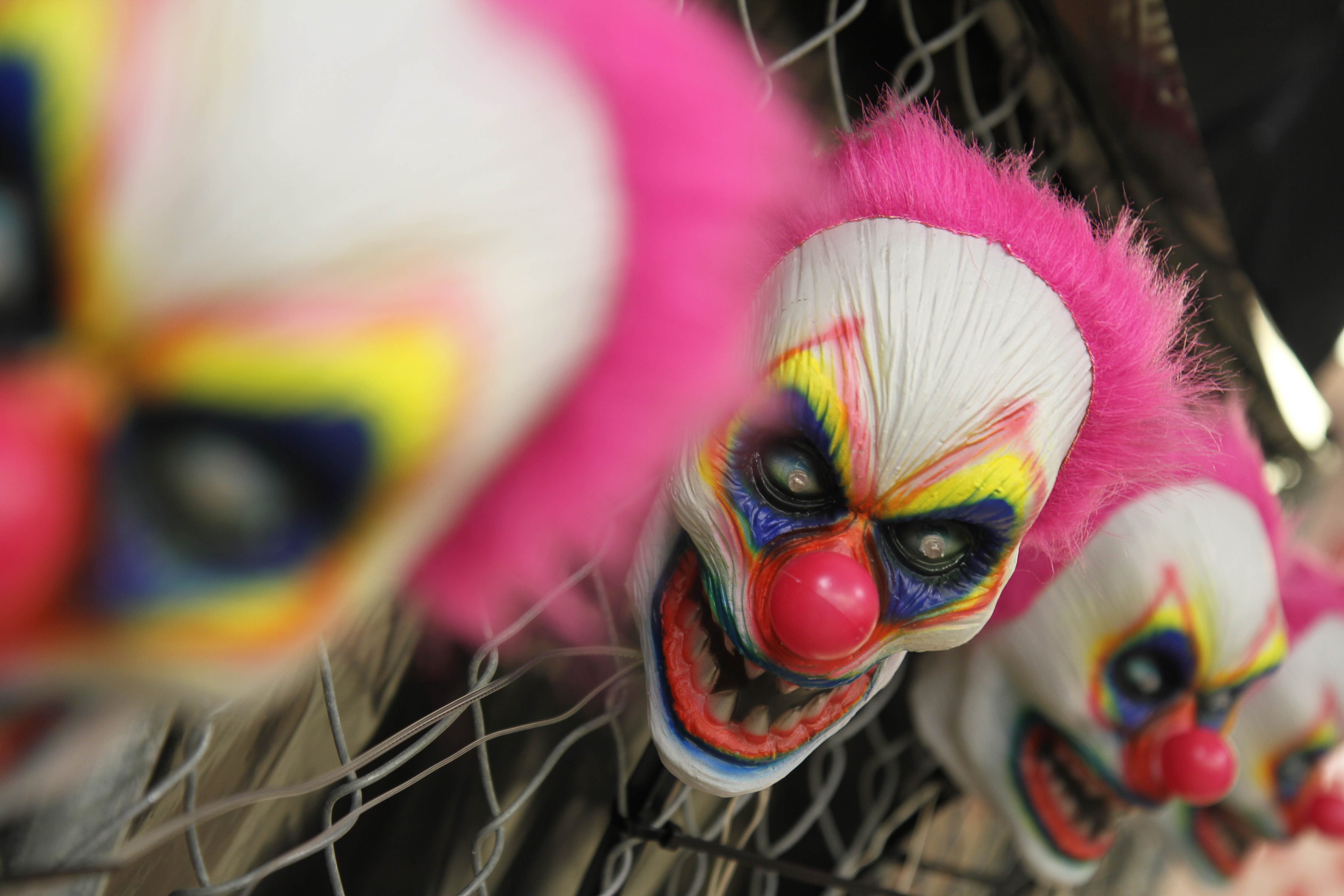 Tiny, evil clown heads glare down at visitors to the “Massacre on Marshall Road” haunted house in the Trading post at Fort Bliss, Texas, Oct. 15, 2013. (U.S. Army photo by Sgt. Robert Golden, 16th Mobile Public Affairs Detachment)